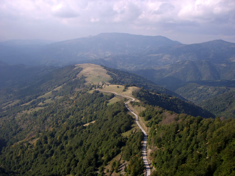 Stara planina in Serbia.